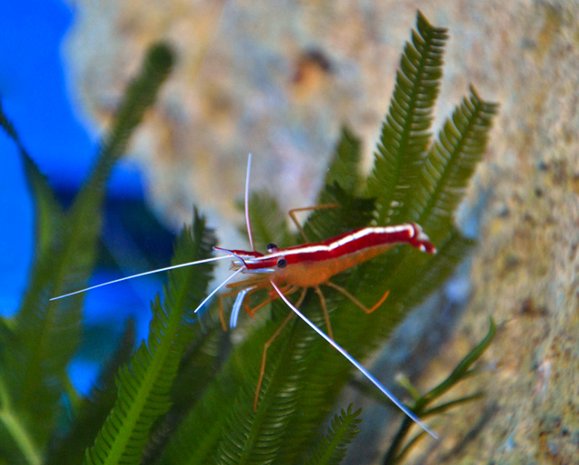 A pacific cleaner shrimp (Lysmata amboinensis) on some Caulerpa taxifolia algae, photographed in a saltwater aquarium.